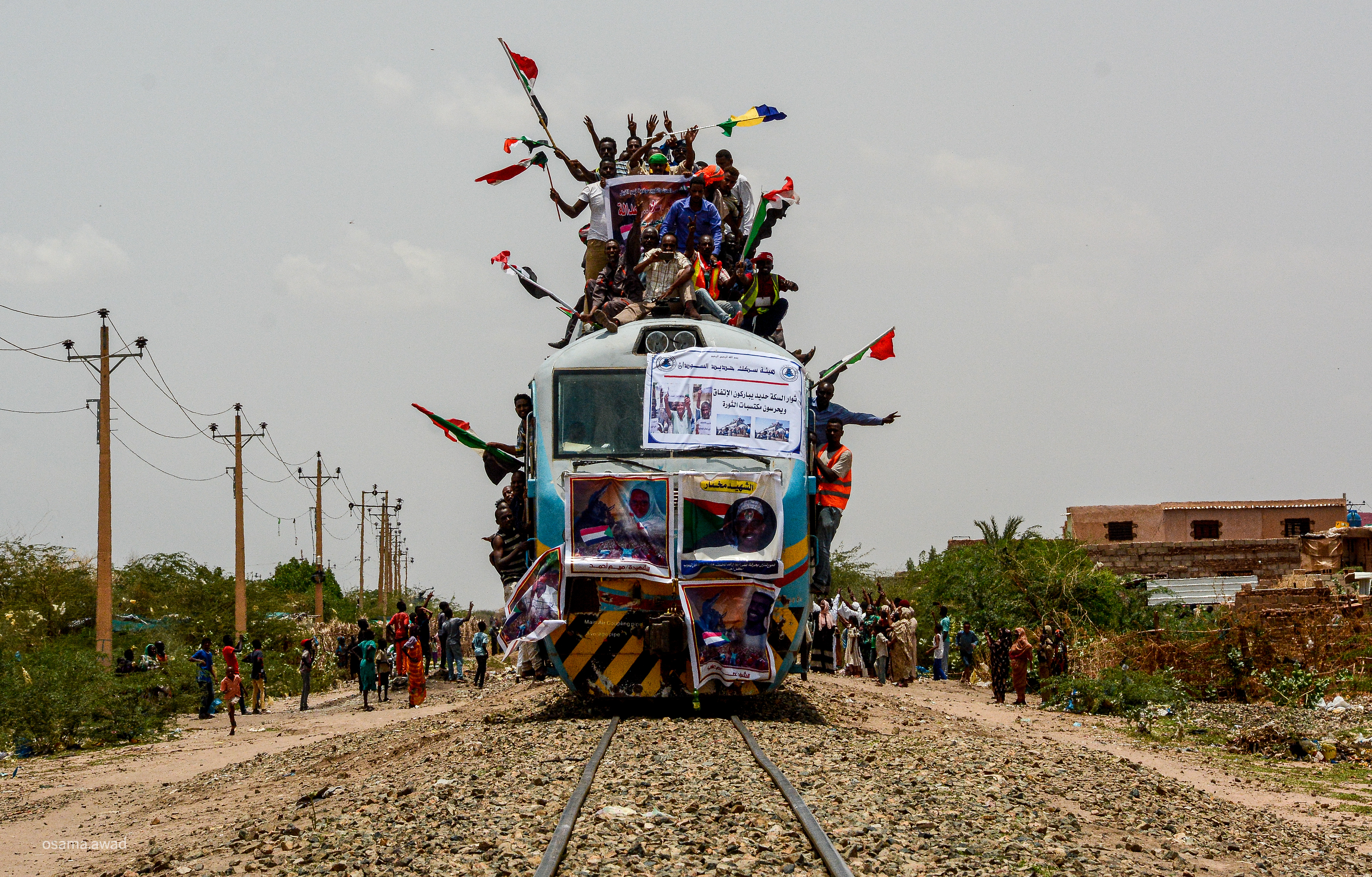 Khartoum _ Sudan This is an image with the theme "Africa on the Move or Transport" from: Sudan